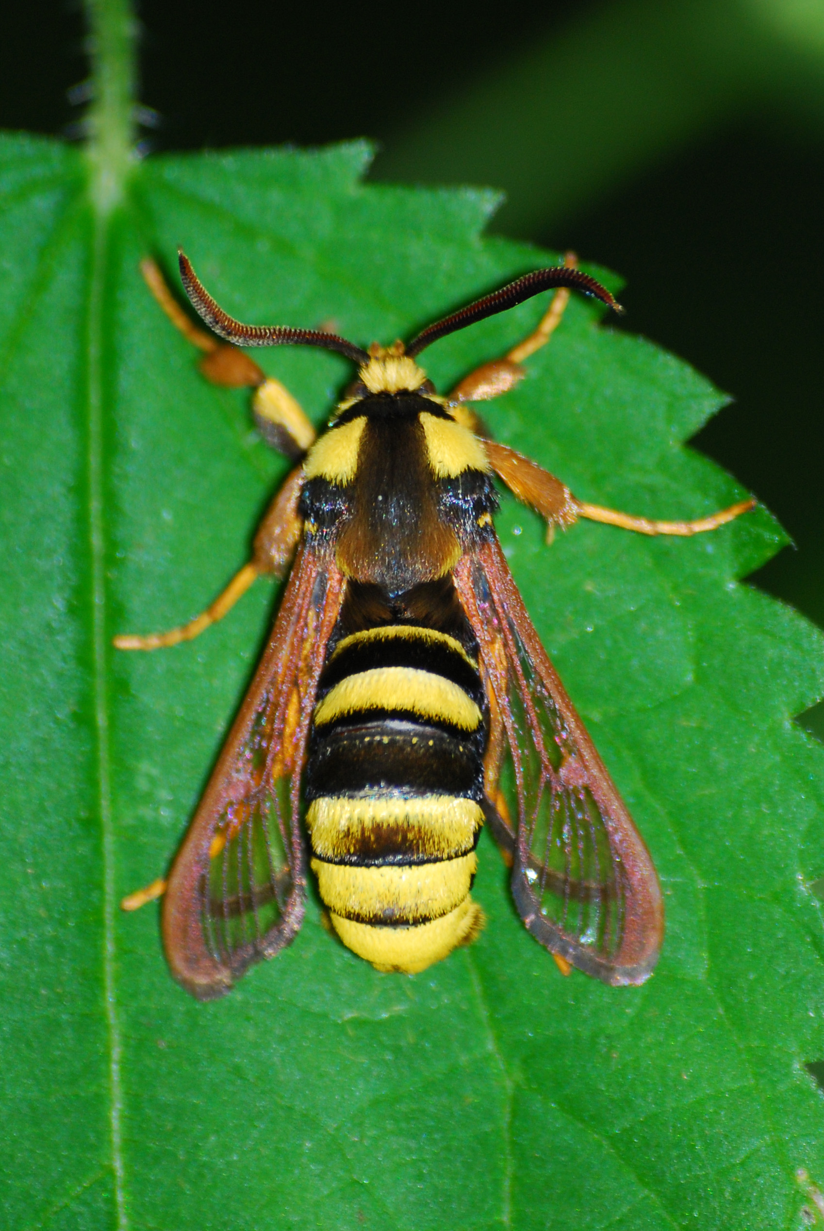 This photo from Podlaskie Voievodeship was taken during Polish Wikiexpedition 2009 set up by Wikimedia Polska Association. The making of this document was supported by Wikimedia Polska. Sesia apiformis